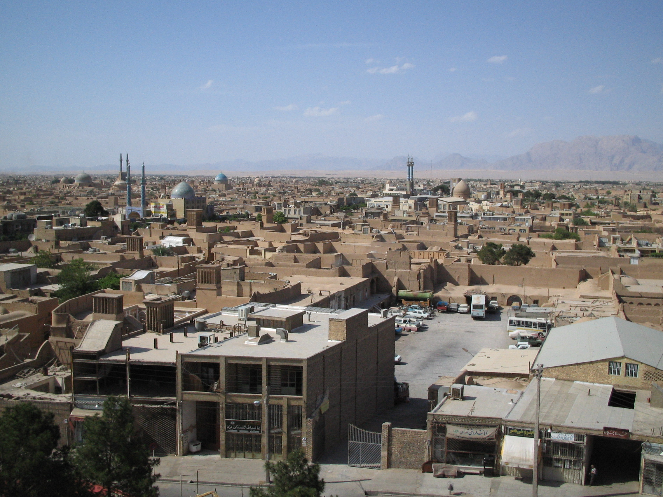 Yazd seen from the top of Tekiyeh Amir Chaq Maq